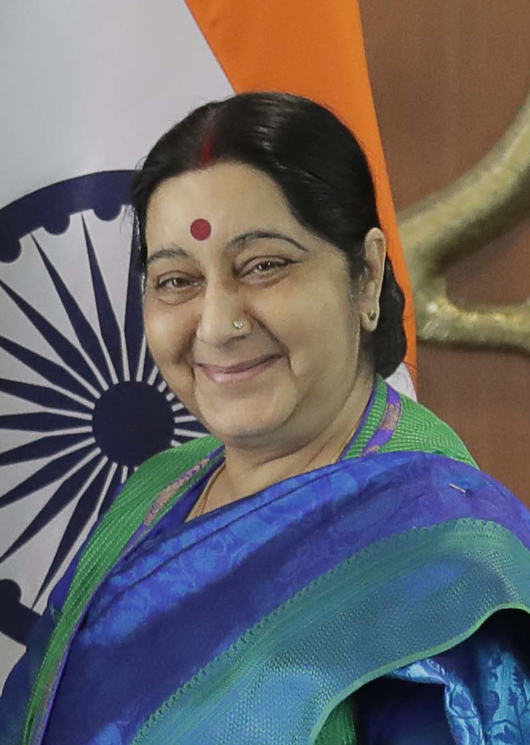 U.S. Secretary of State Rex Tillerson is greeted by Indian Minister of External Affairs Sushma Swaraj at the Ministry of External Affairs in New Delhi, India on October 25, 2017. [State Department Photo/ Public Domain]